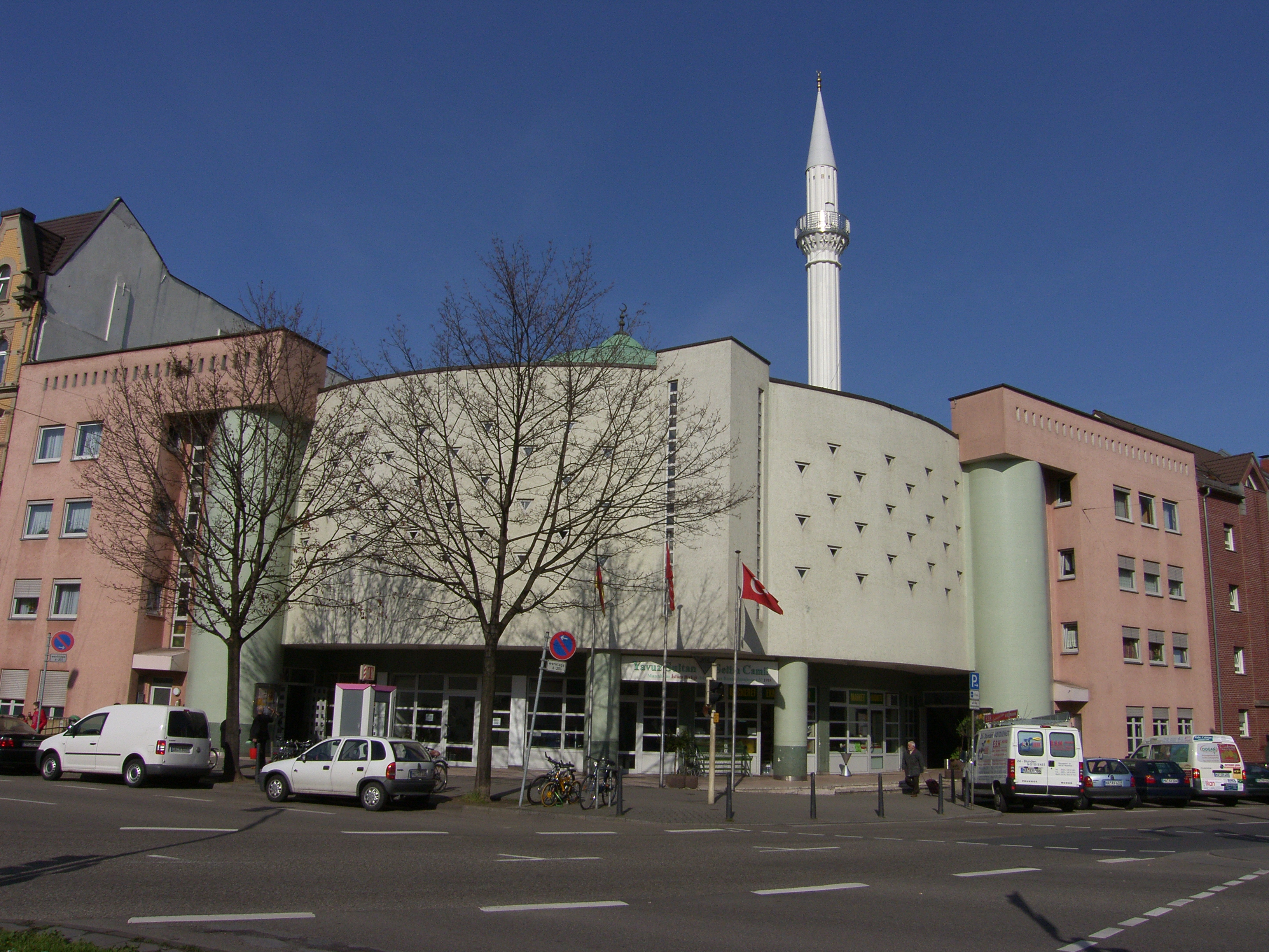 Yavuz Sultan Selim Mosque, Mannheim, Germany